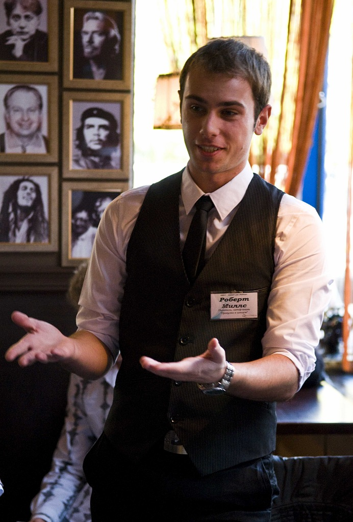 communication is most important part of games